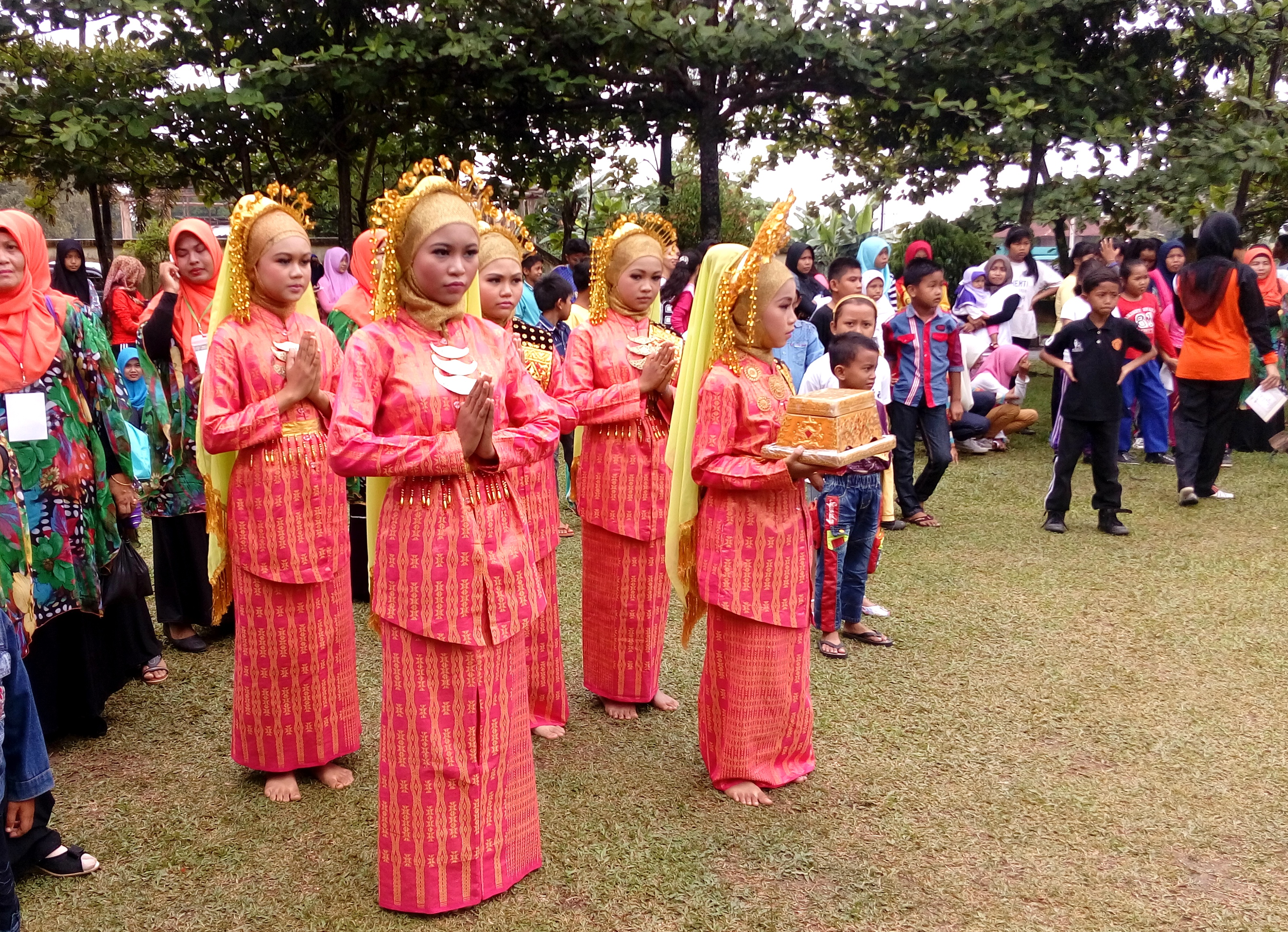 This picture was taken when there was a campaign for the election of mayor in 2015, local girls performed dance 'Persembahan' to welcome the prospective mayor of Firdaus